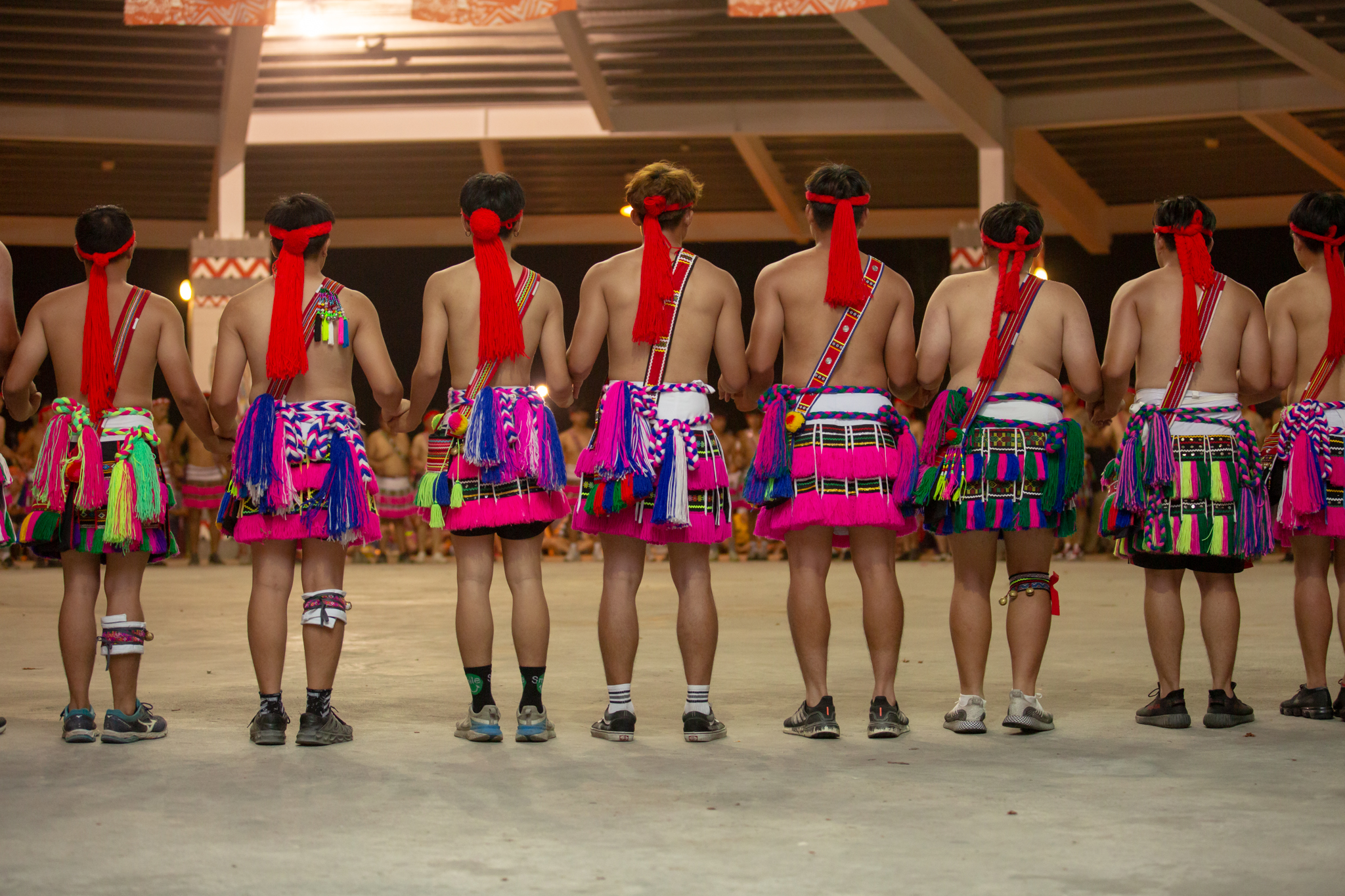 Official Photo by Wang Yu Ching / Office of the President